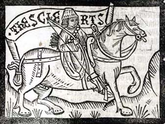 The clerk, one of the pilgrims in Chaucer's Canterbury tales